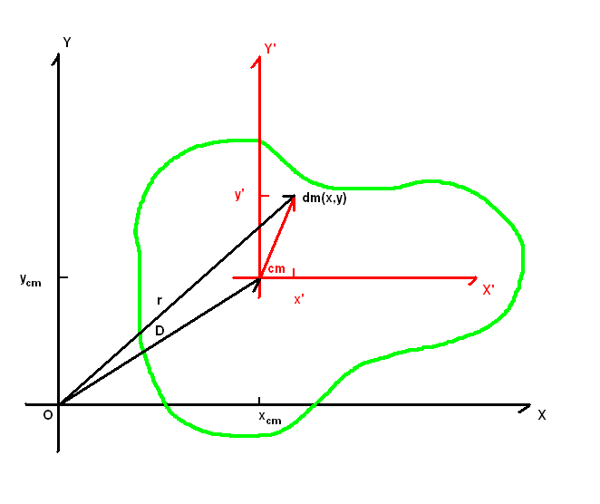 Discription of the steiners sats theorem. Adapted for the Norwegian Parallel axis theorem.